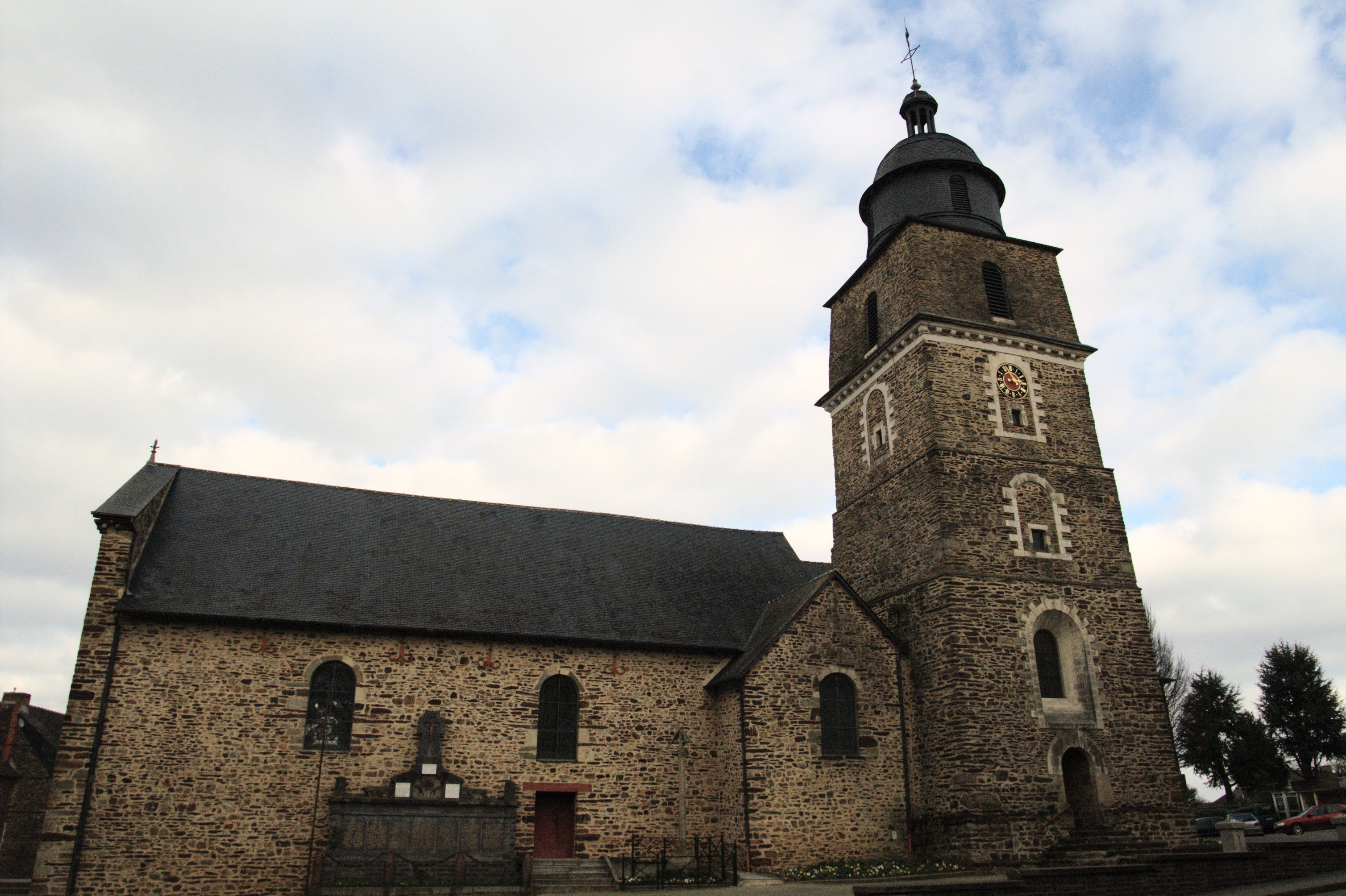 Church of Bréal-sous-Montfort.